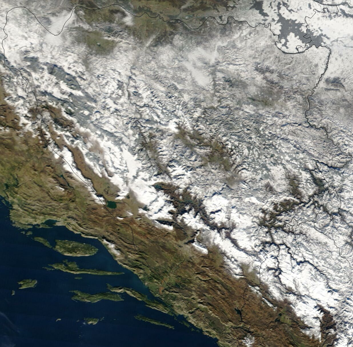 Satellite image of Bosnia and Herzegovina in December 2002.